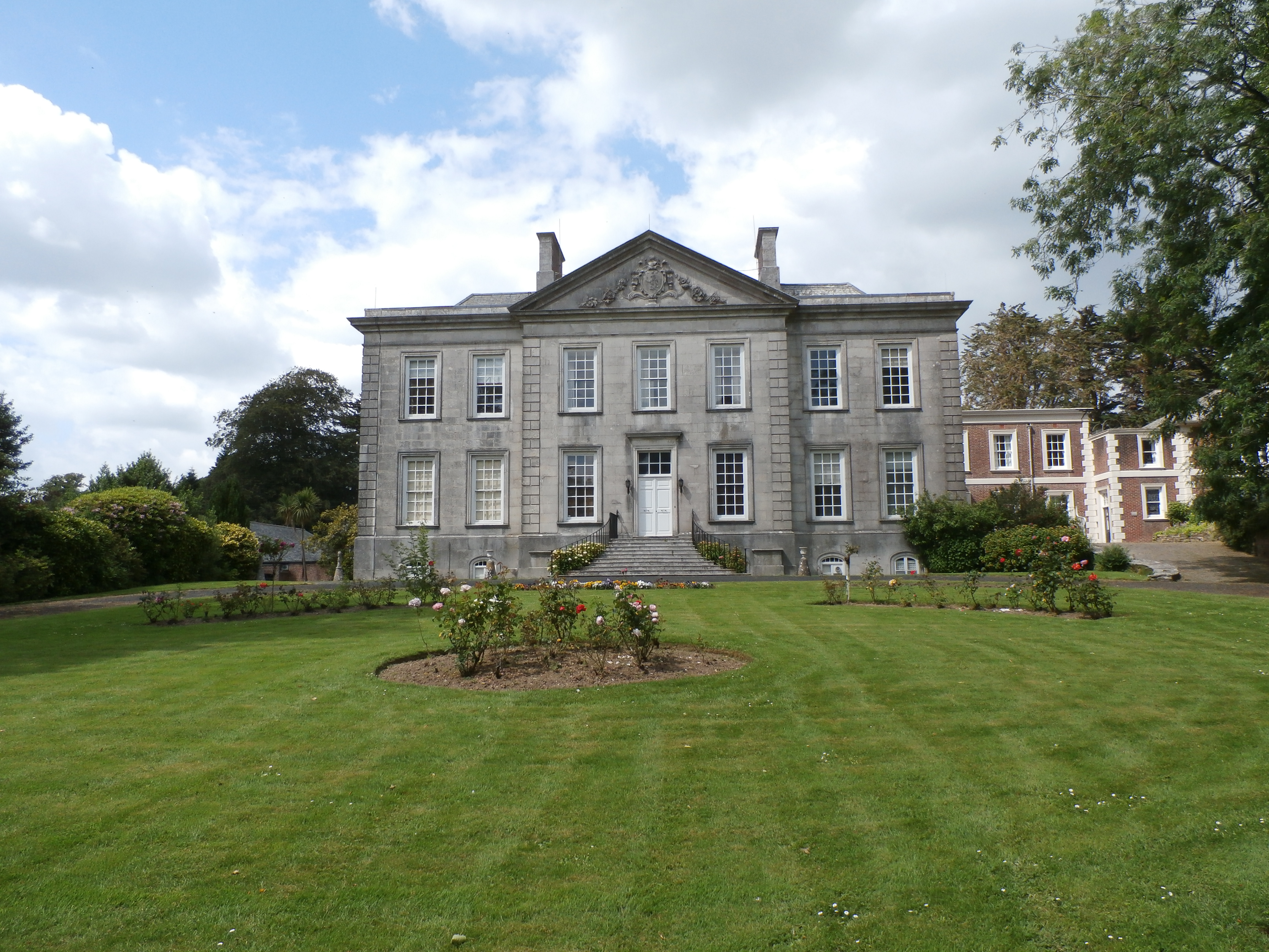 Plympton House, Plympton St Maurice, Devon. South front